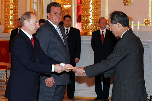 GRAND KREMLIN PALACE, MOSCOW. Japan\'s Ambassador to Russia, Yasuo Saito, presenting his letter of credential.